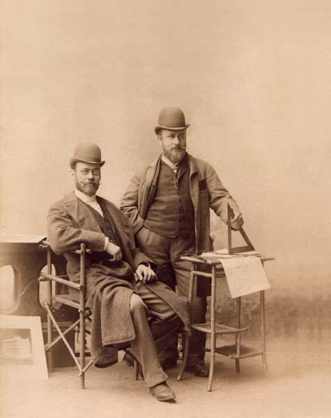 Leo Hönigsberg (standing) and Julius Deutsch from architecture studio and construction company Hönigsberg & Deutsch